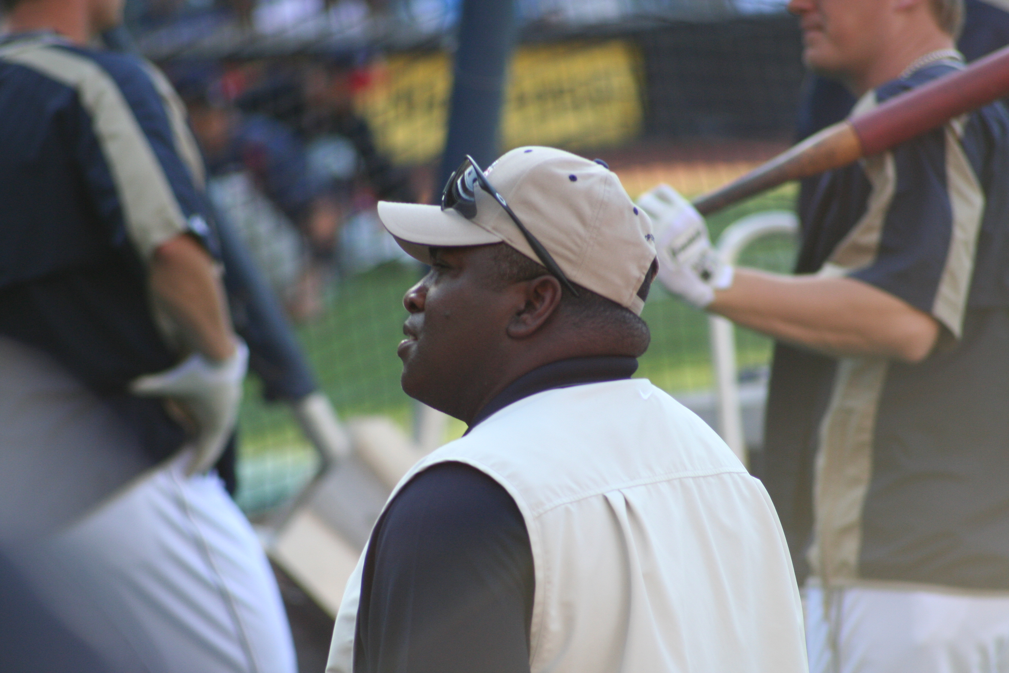 San Diego Padres player and Baseball Hall of Famer Tony Gwynn